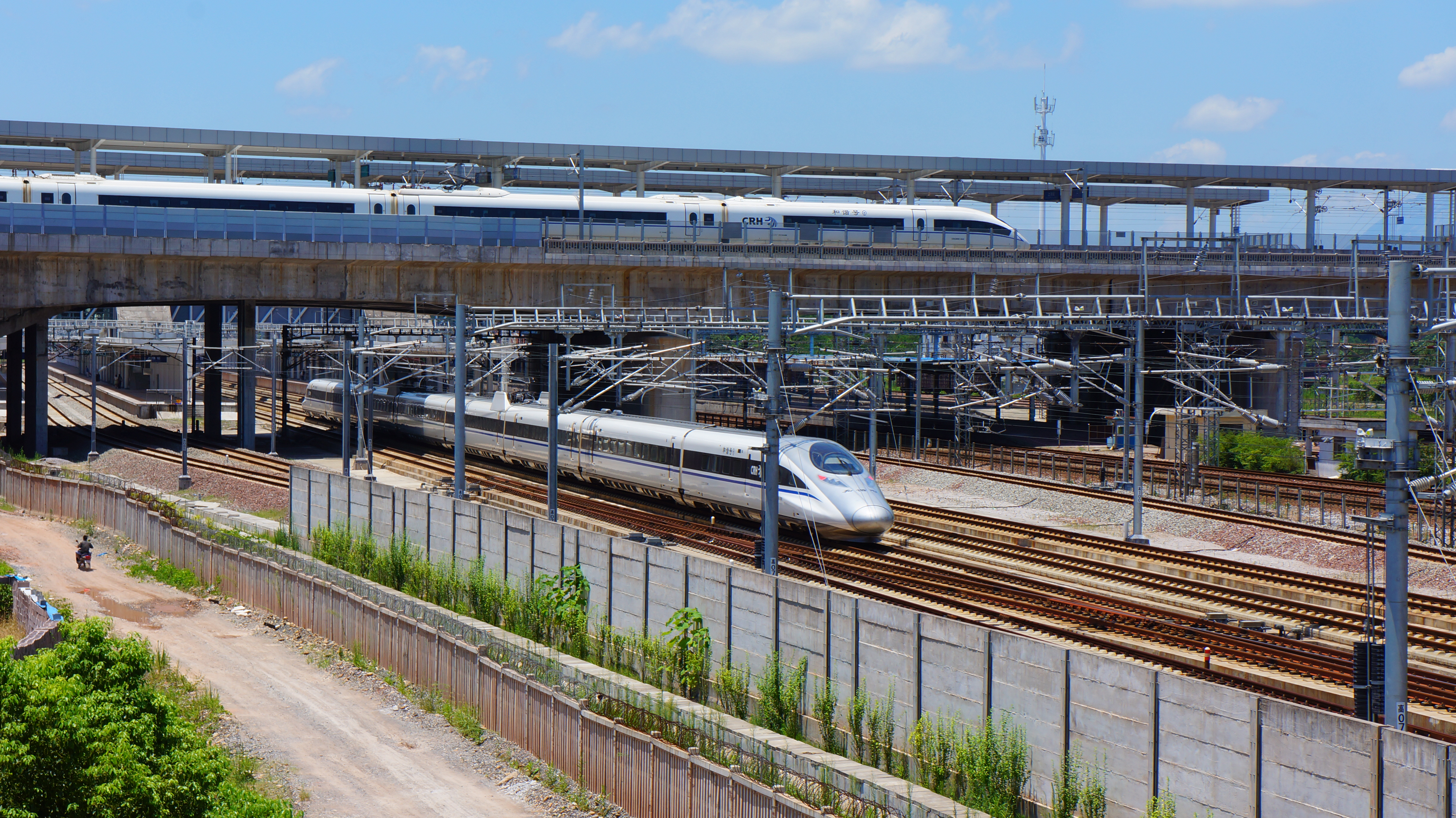 The 380BL Train, G1510 (Shanghai Hongqiao to Huangshanbei) stopped at the upper platform which is Hefei-Fuzhou High-Speed Railway-Yard, with a 380A train, G1675(Xuzhoudong to Nanchangxi) past through the lower yard which is Hangzhou-Changsha High-Speed Railway-Yard.